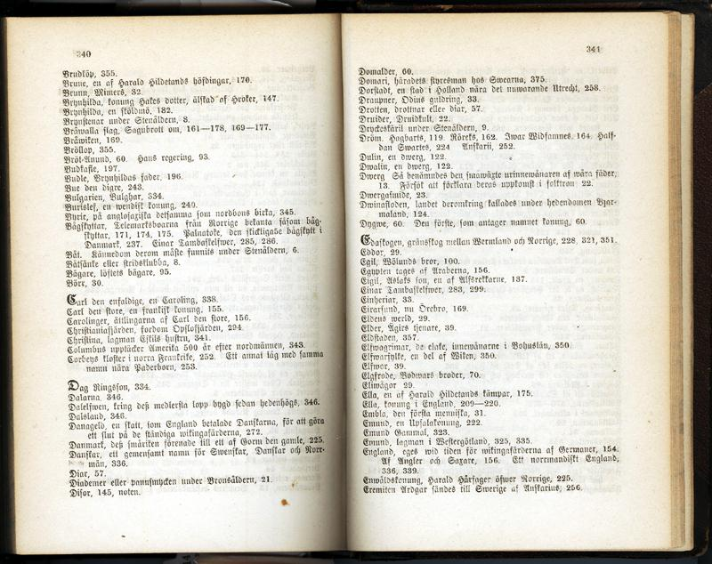 Index pages from a Swedish history book of 1860 by Carl Georg Starbäck Place: Sweden